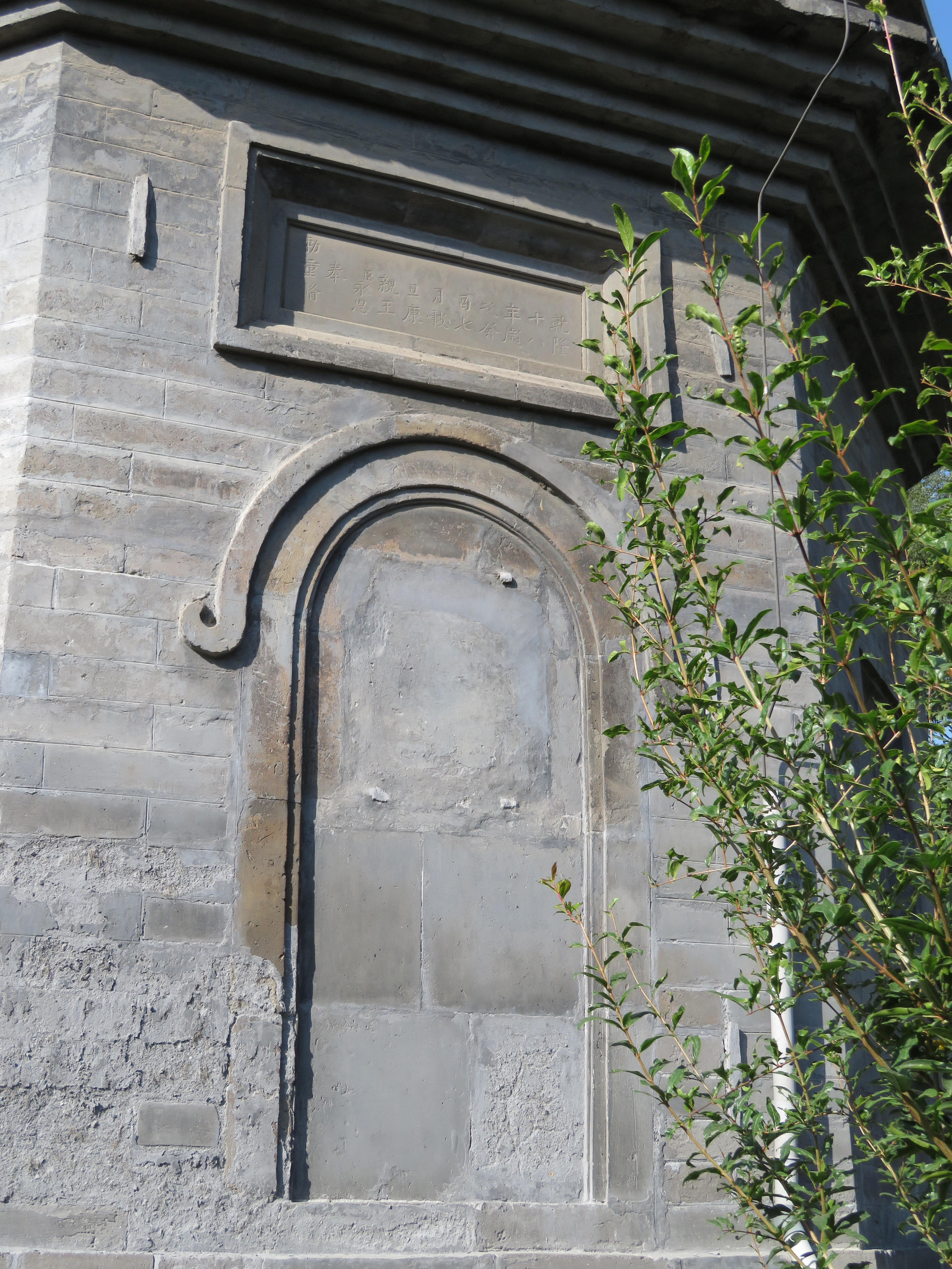 Renovated inscription on the Pagoda of Monk Wansong or the Old Man of Wansong (Wansong Laoren Ta 万松老人塔) at Xisi, Beijing. The inscription commemorates the restoration of the pagoda by Prince Kang (Aisin Gioro Yong'en) on the order of the Qianlong Emperor in 1753: "乾隆十八年岁次癸酉七月榖旦康亲王臣永恩奉勅重脩".